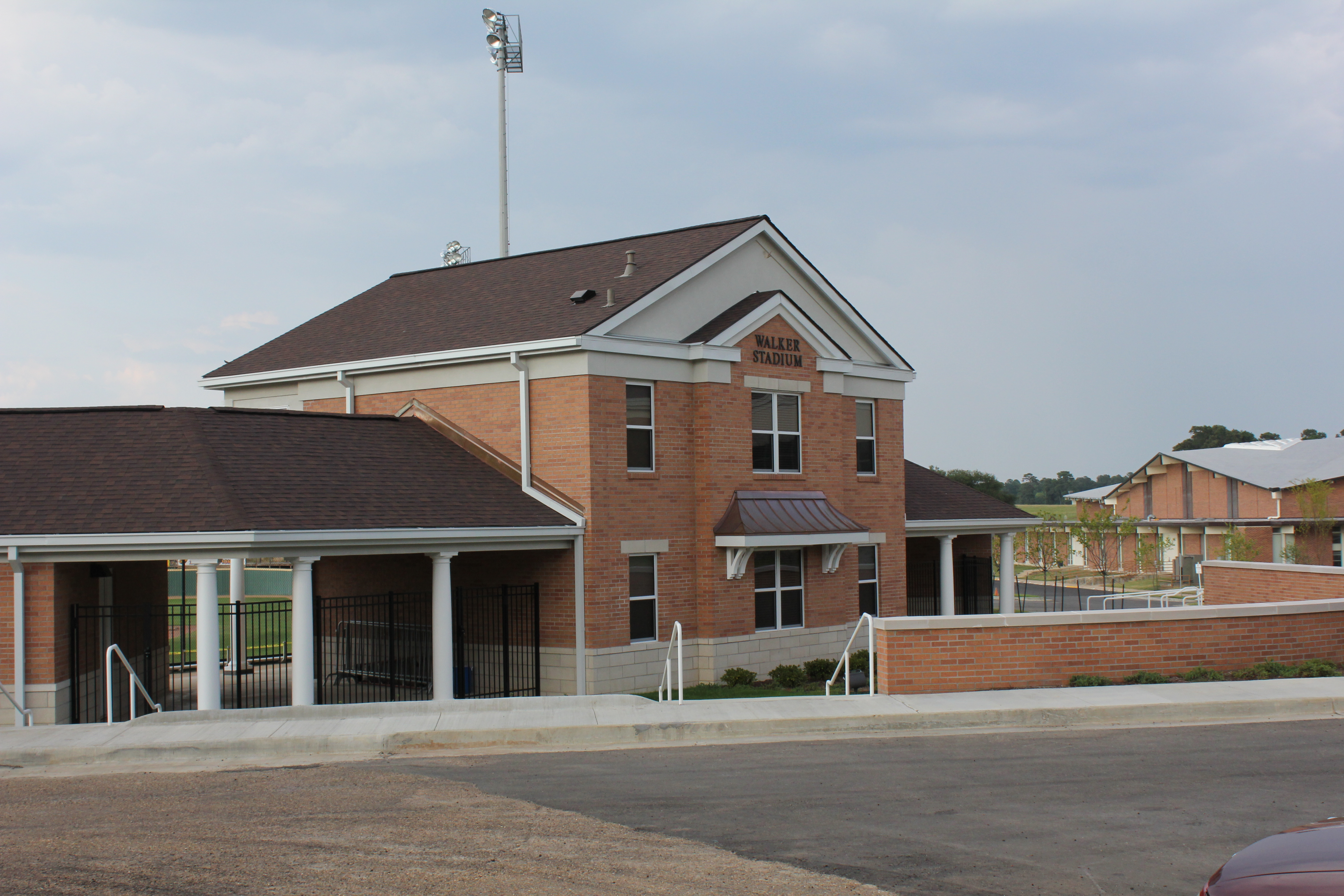 Parking Lot View of Walker Stadium, Southern Arkansas University, Magnolia, Arkansas